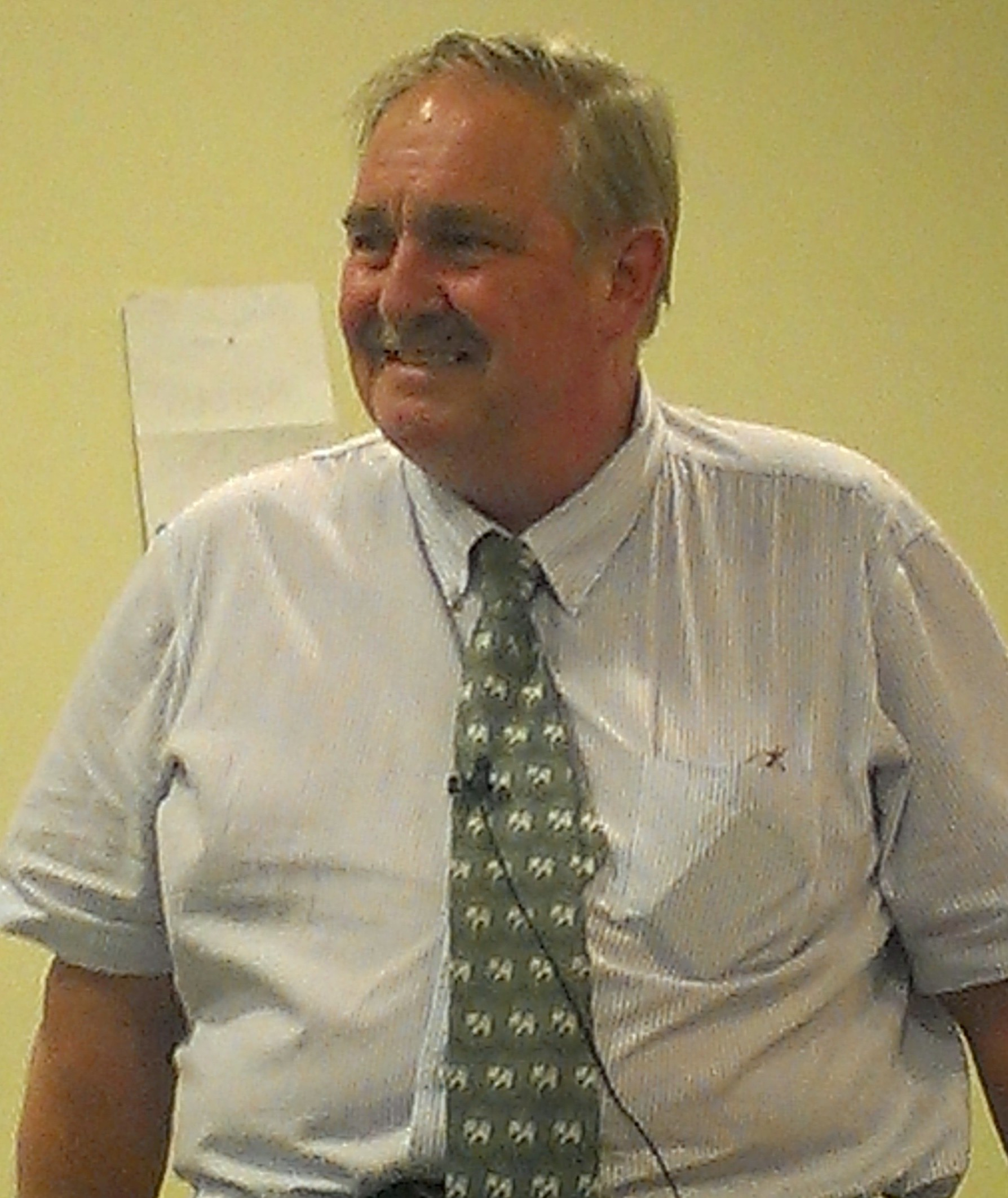 David Nutt giving a presentation in Oslo may 22nd 2013 at Sirus.